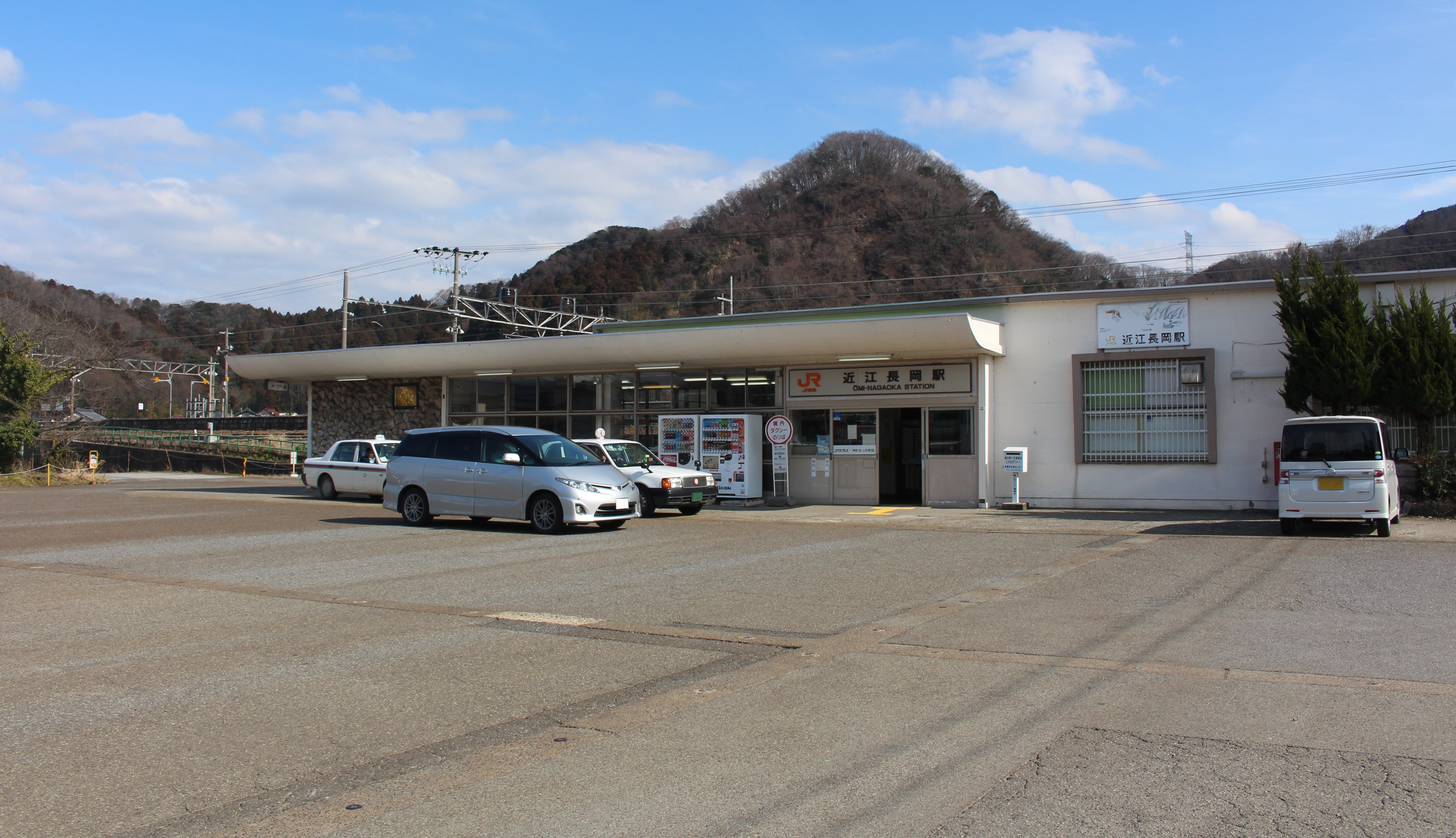 Ōmi-Nagaoka Station on the Tōkaidō Main Line in Maibara, Shiga Prefecture, Japan